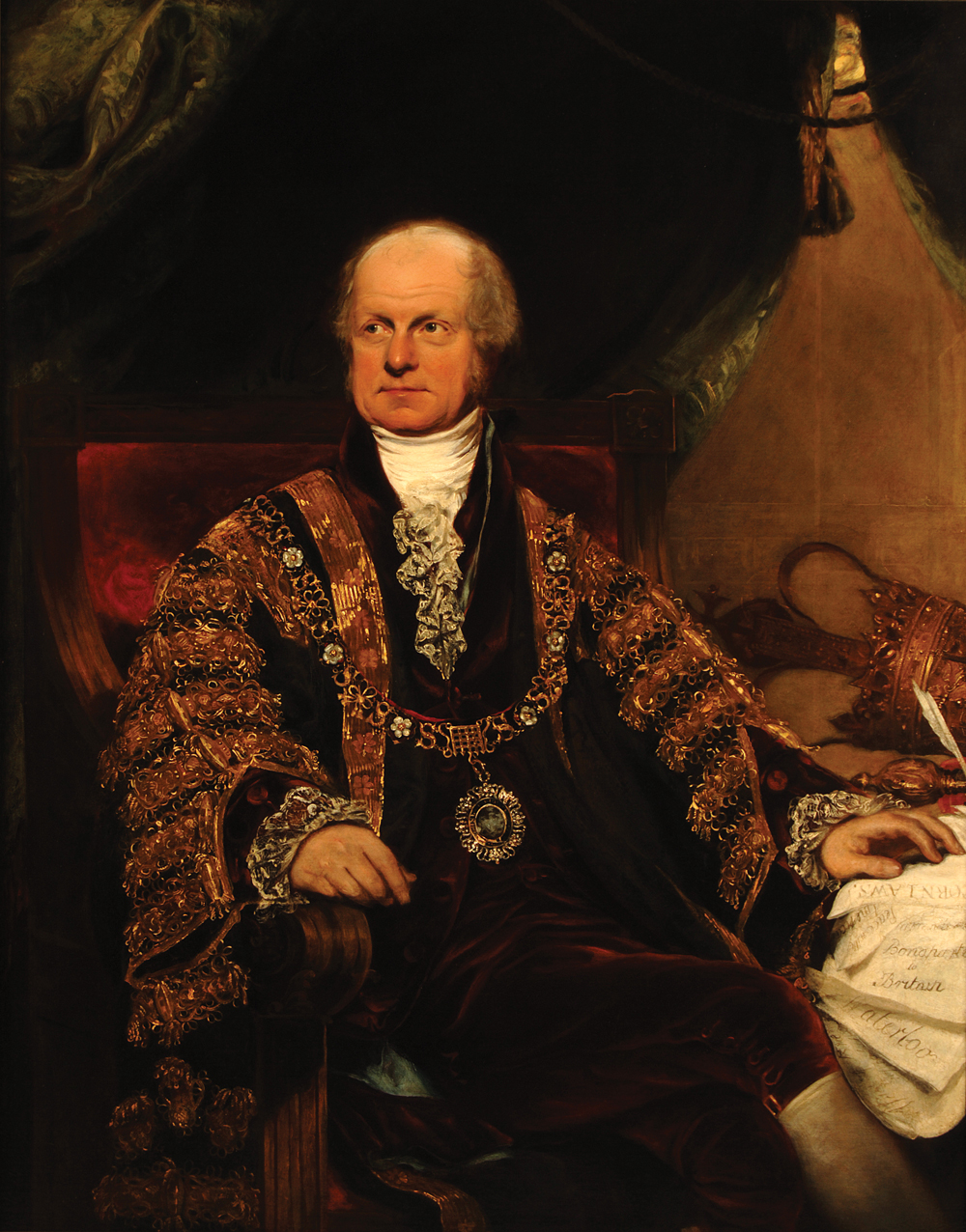 Portrait of Samuel Birch (1757-1841), Lord Mayor of London.